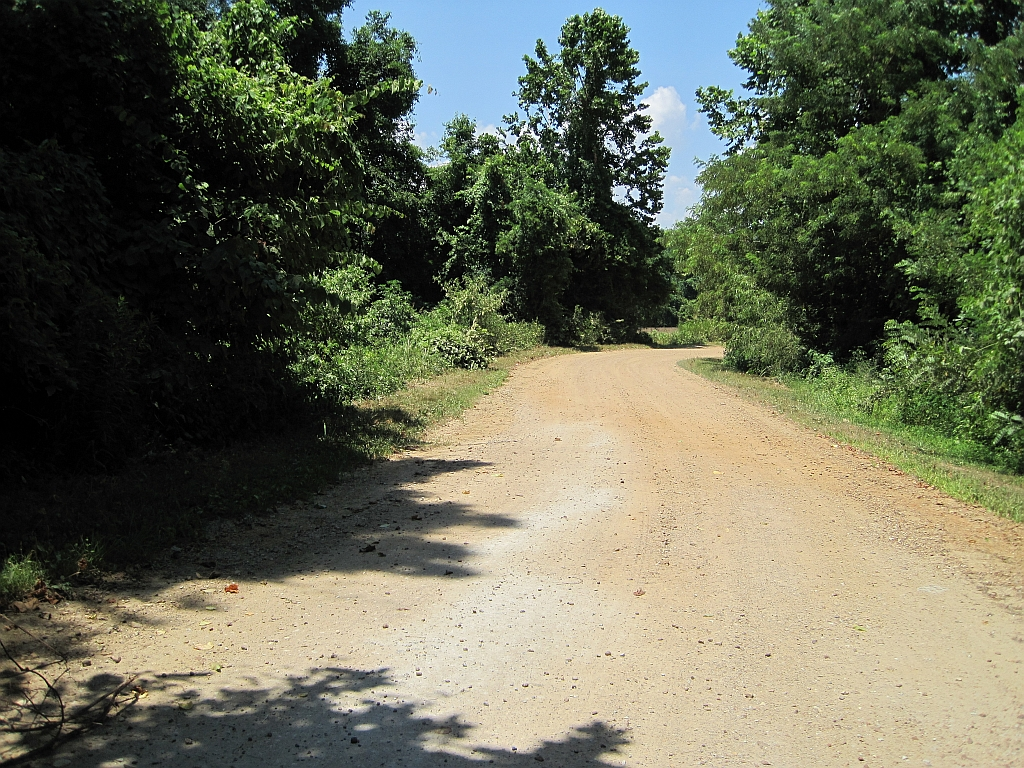 Randolph, Tennessee, Ballard Slough Road, unpaved portion.